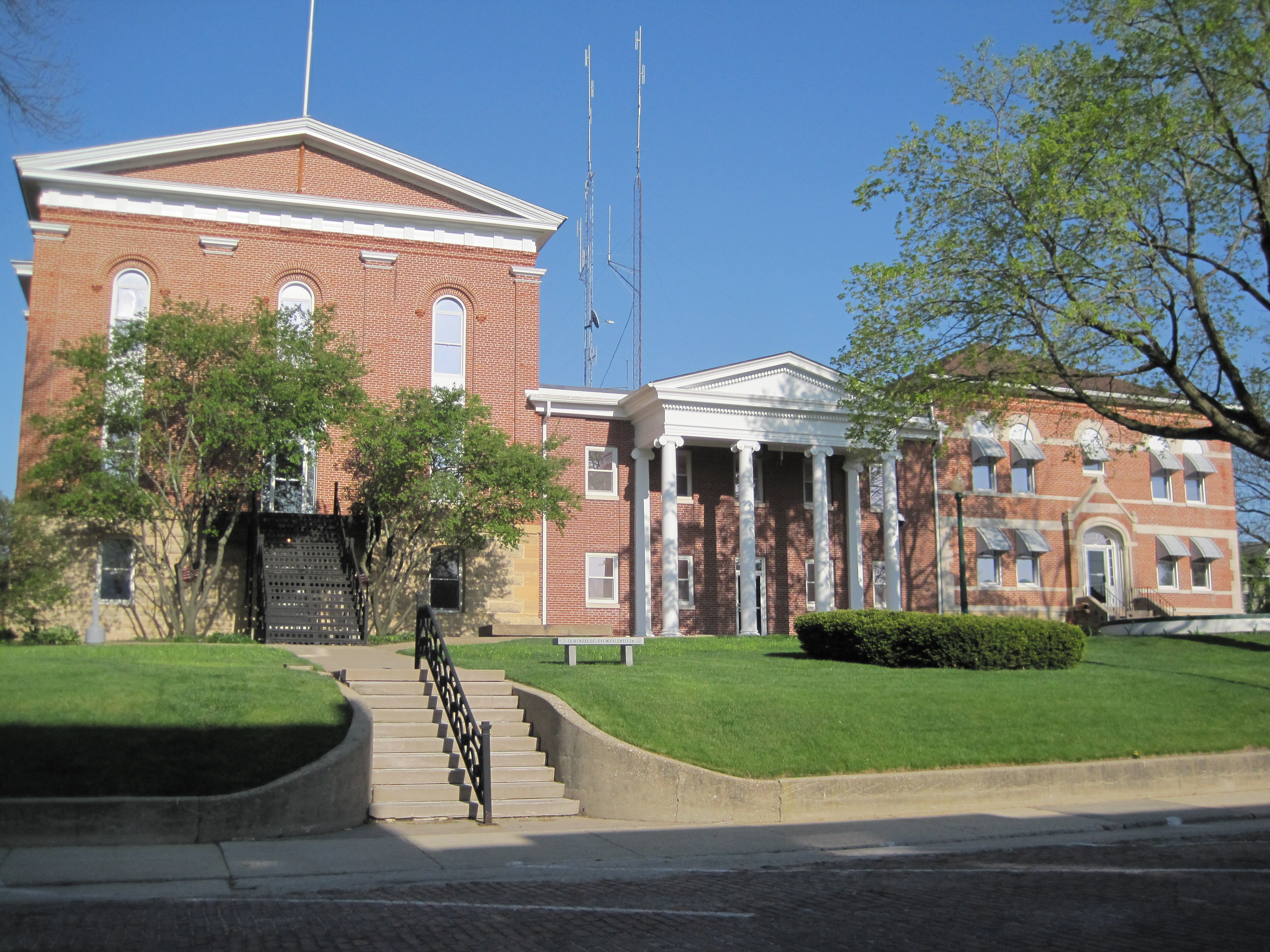 The Carroll County Courthouse in Mount Carroll, Illinois, constructed 1895.